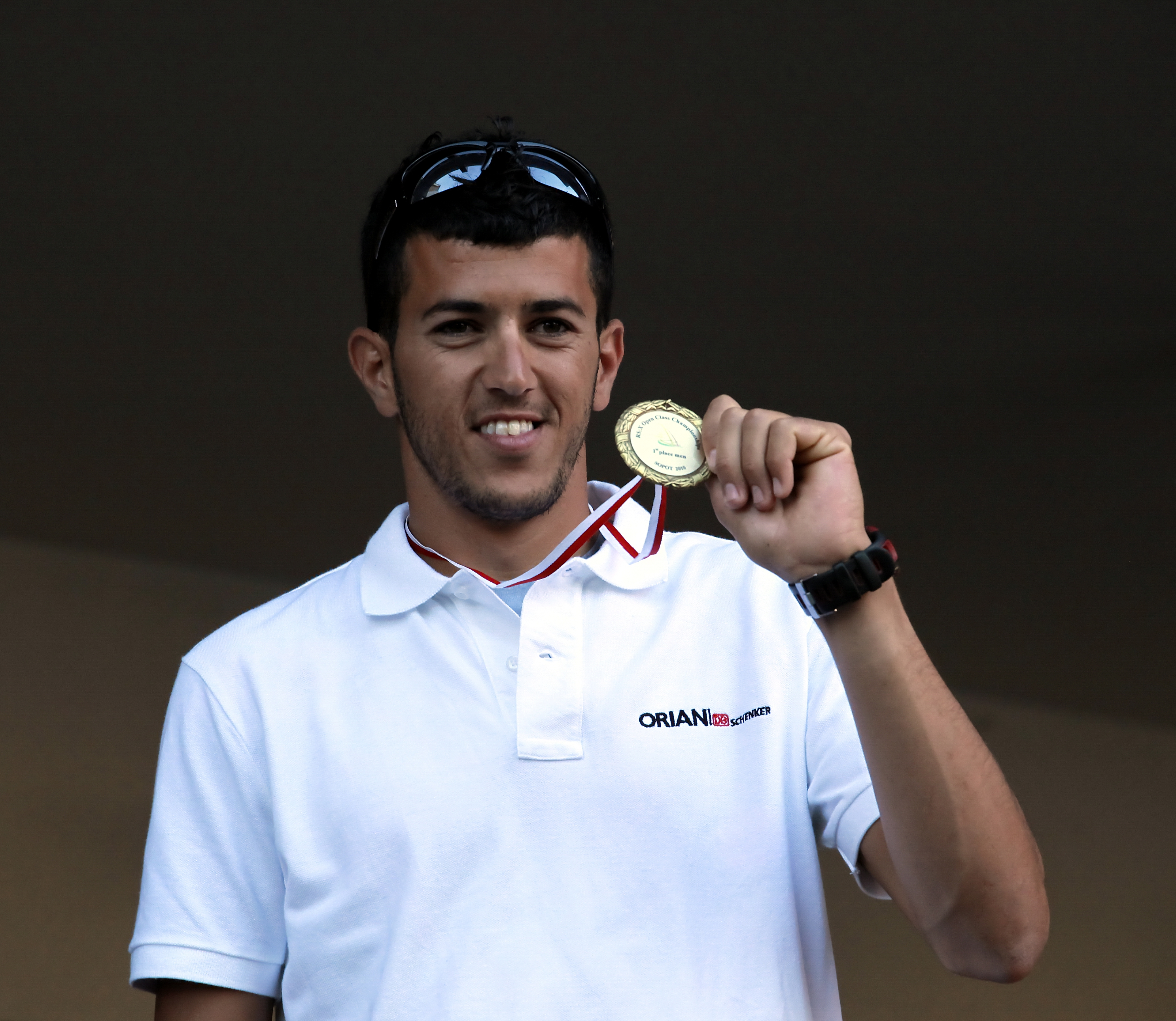 European Windsurfing Championships RS:X, POLAND, Sopot 2010